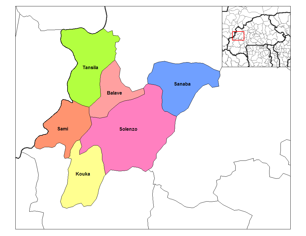 This map has been uploaded by Osiris fancy from to enable the Wikimedia Atlas of the World. Original uploader to was Rarelibra. Osiris fancy is not the creator of this map. Licensing information is below. Map of the departments of Banwa province in Burkina Faso. Created by Rarelibra 03:11, 30 September 2006 (UTC) for public domain use, using MapInfo Professional v8.5 and various mapping resources.